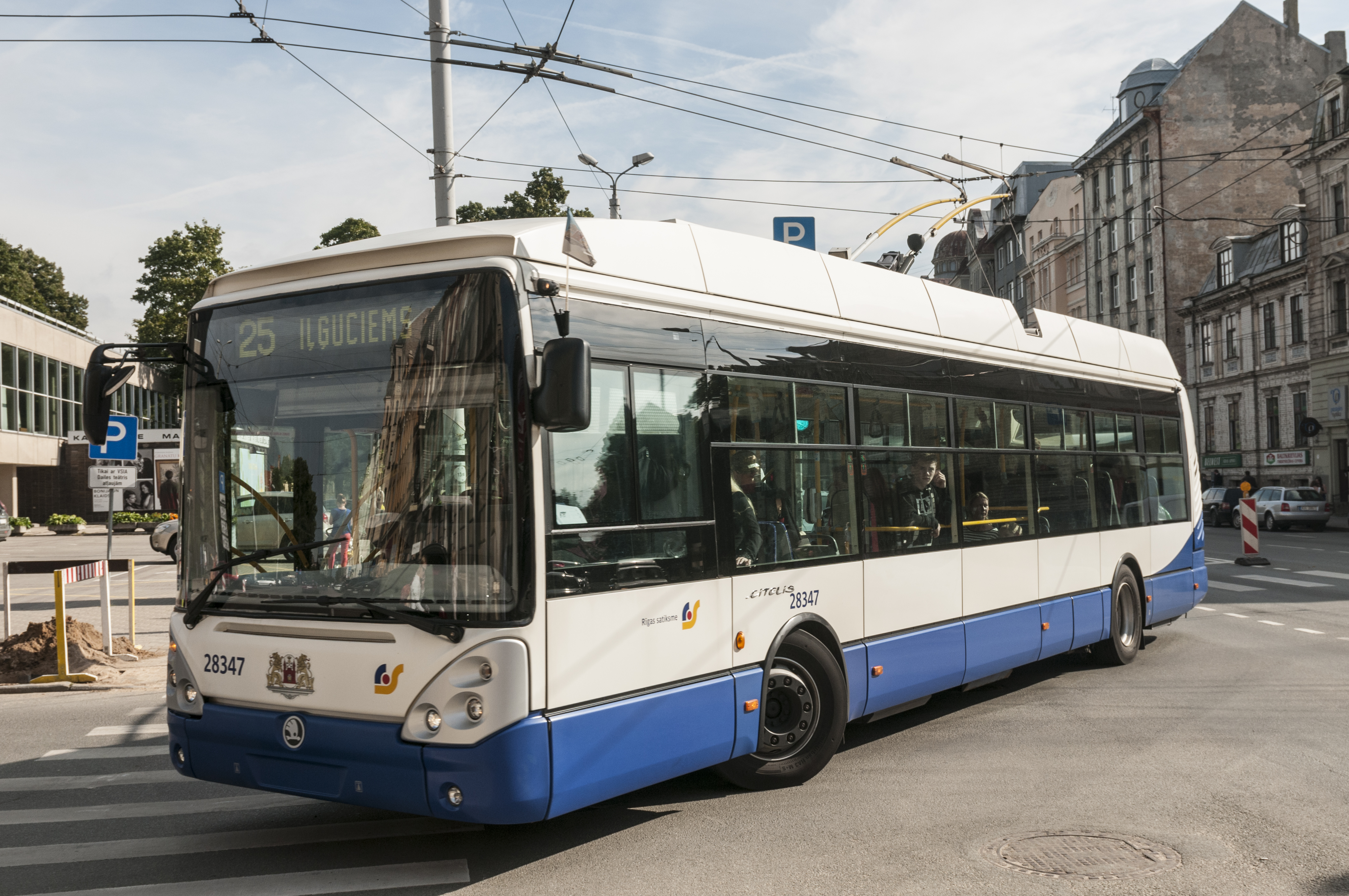 Škoda 24Tr Irisbus in Riga, Latvia